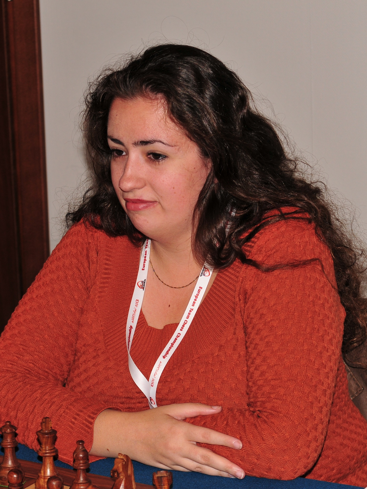 WIM Olga Gutmakher (née Vasiliev), European Chess Team Championship Warsaw 2013